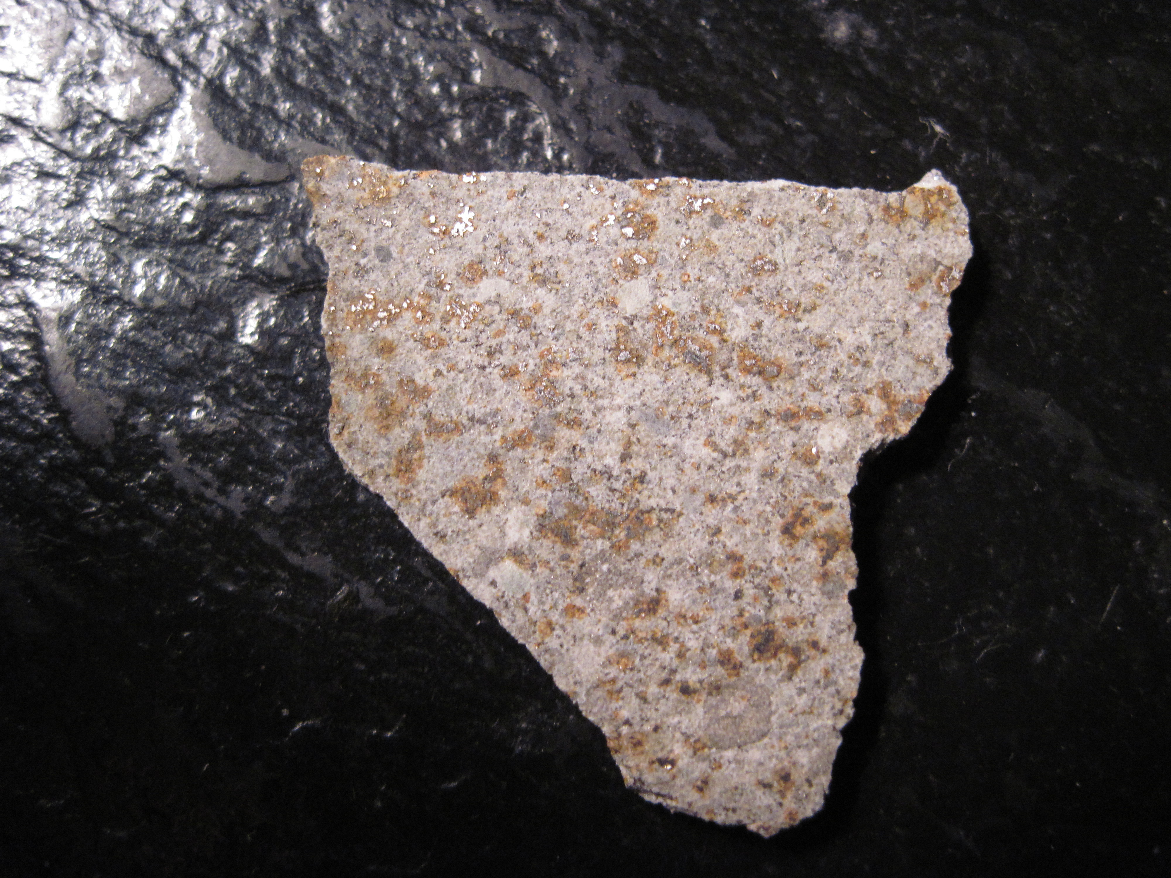 4.62 gram slice ordinary chondrite (LL6). On September 12, 2008 around 0830, villagers in Tamil Nadu, India heard loud screeching sounds followed by house shaking explosions. Bright flashes and smoke were also observed. Witnesses speculated that an accidental bomb drop from a military plane was the culprit and craters left behind seemed to support this theory. It was later determined that a huge stony meteorite had pummeled the area. This is the largest Indian fall on record.